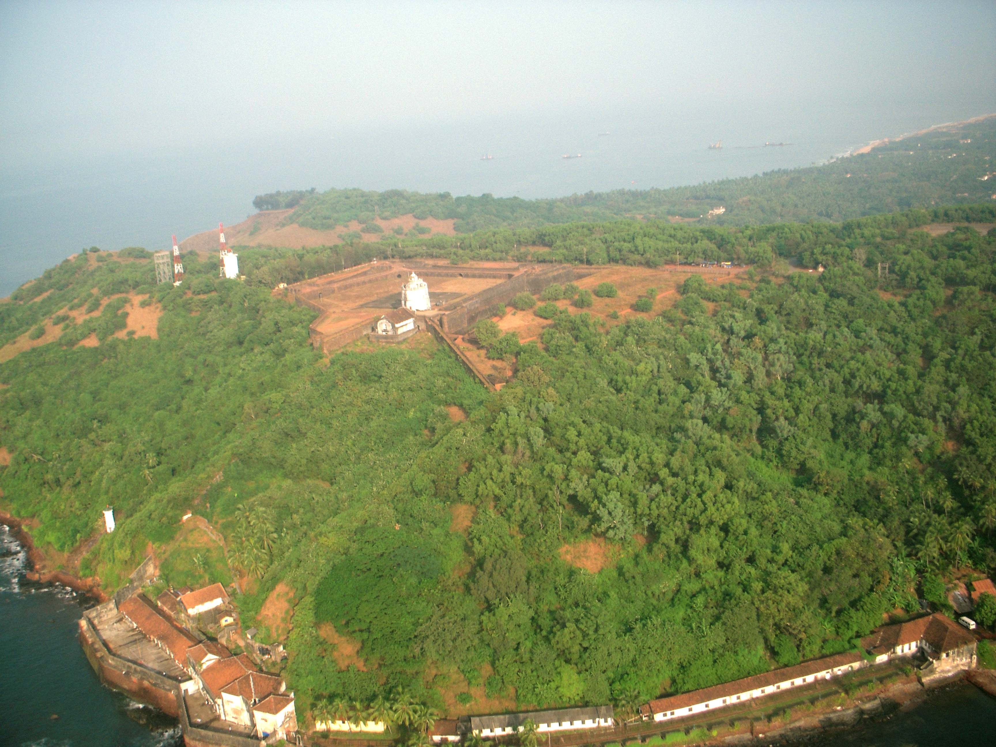 Fortification Wall of Auguda Fortress(Lower)